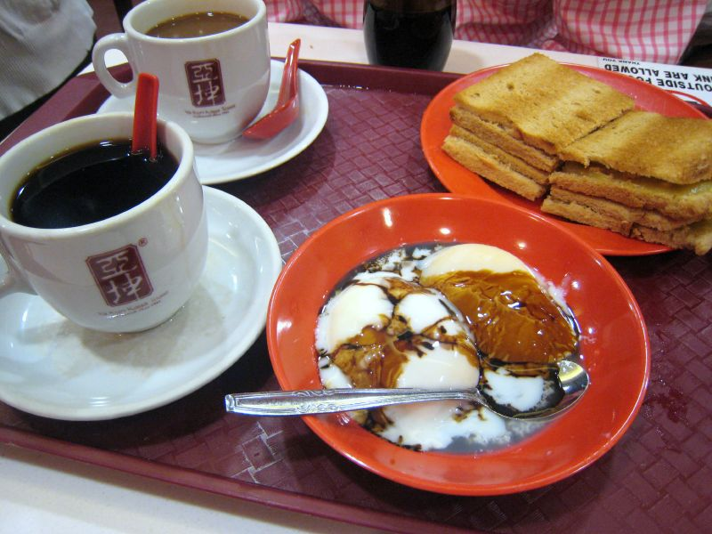 Toast, eggs and coffee served at Ya Kun Koya Toast